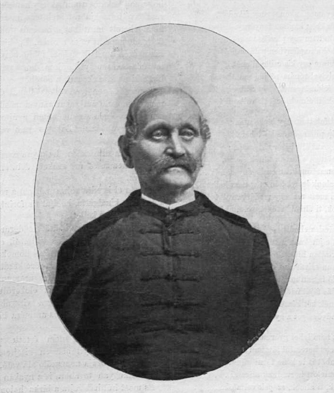 Bertalan Kun